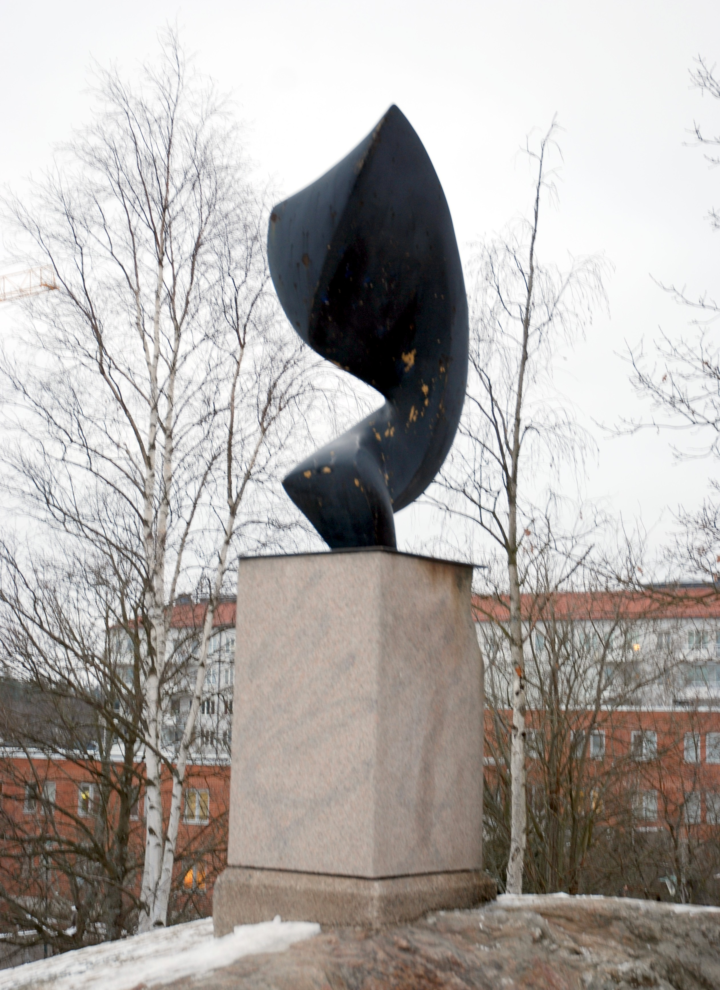 Veikko Keränen´s (1935-2004) steel sculpture Billie on my mind, Sätra, Stockholm. The title alludes to the singer Billie Holiday.